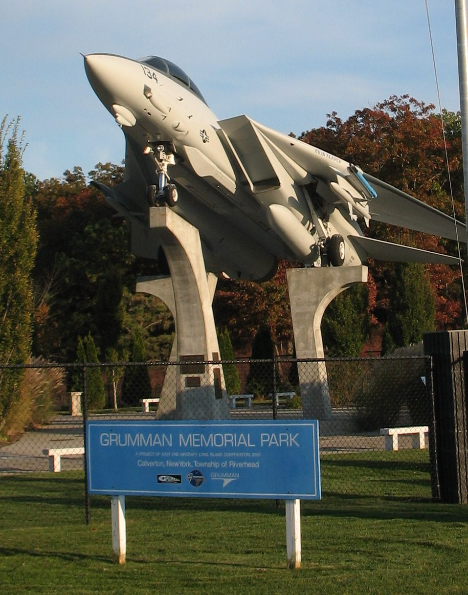 Grumman Memorial Park by Calverton Executive Airport. Photo by poster in November 2007.